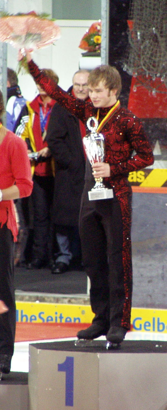 Stefan Lindeman at the German nationals 2006